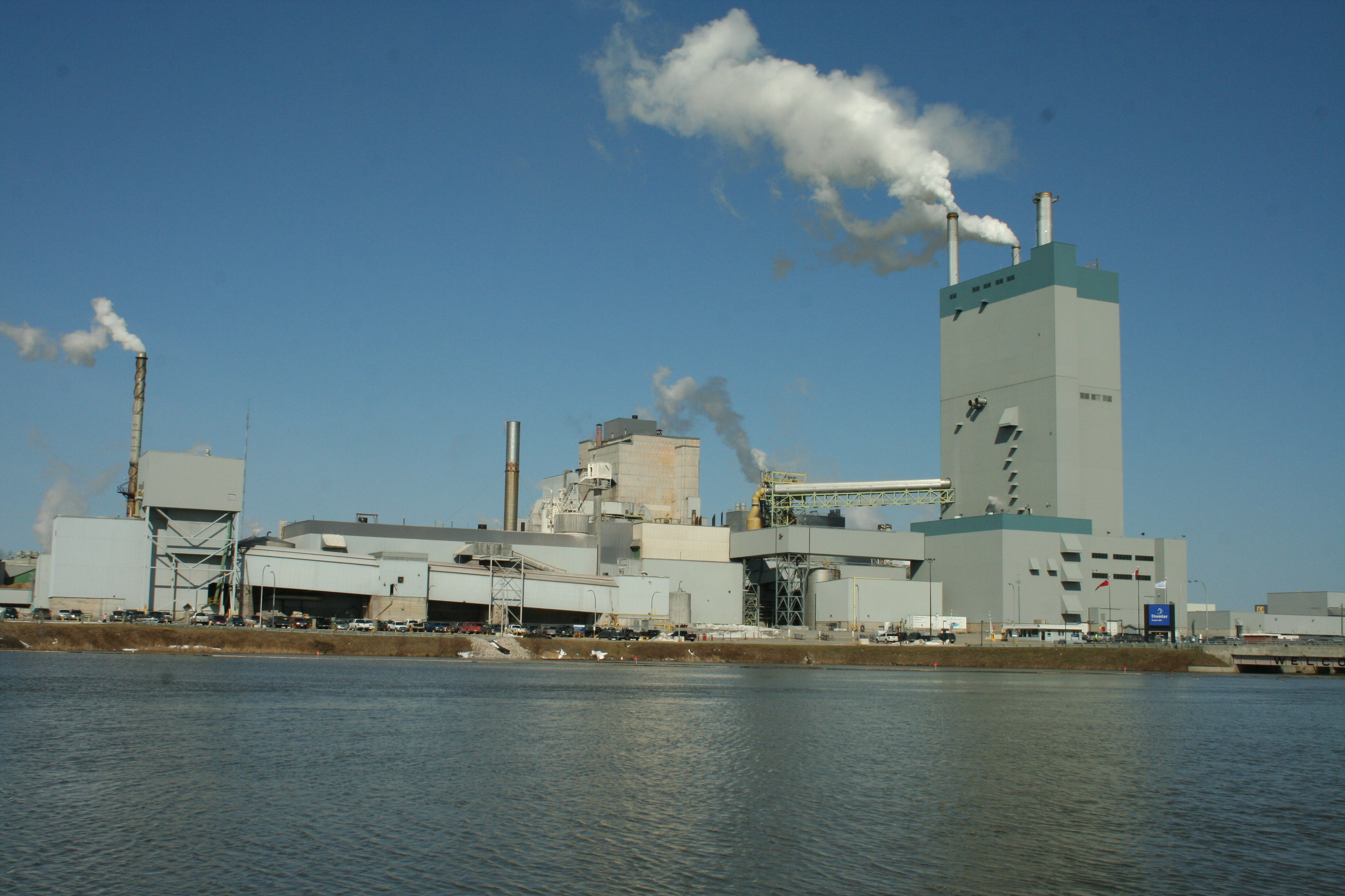 Picture of Dryden Mill